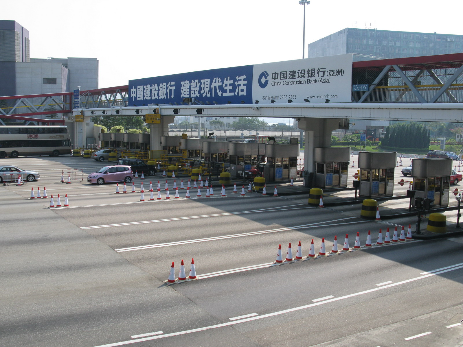 Eastern Harbour Tunnel Toll Plaza